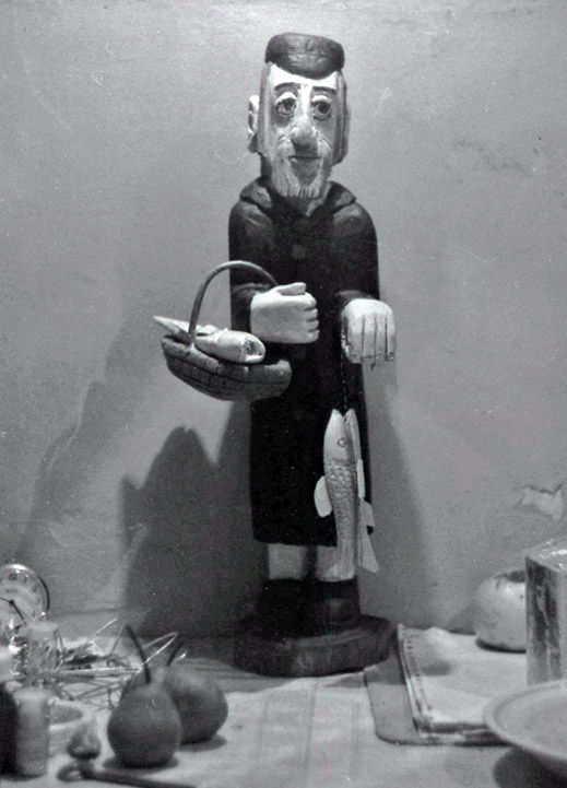 Jewish fishmonger